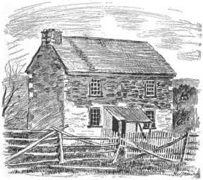 Line drawing of William Parker's house, circa 1851. Site of the Christiana incident in Pennsylvania where a group of slave catchers were violently resisted and one killed.